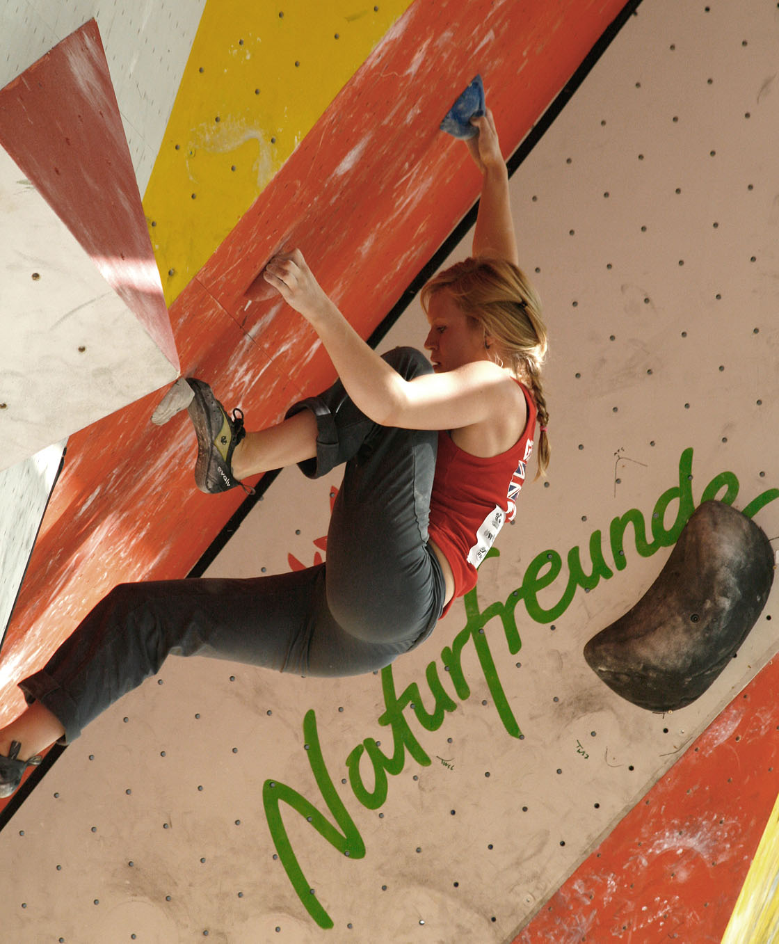 Mina Leslie-Wujastyk during qualifications at the IFSC Boulder Worldcup Vienna 2010.